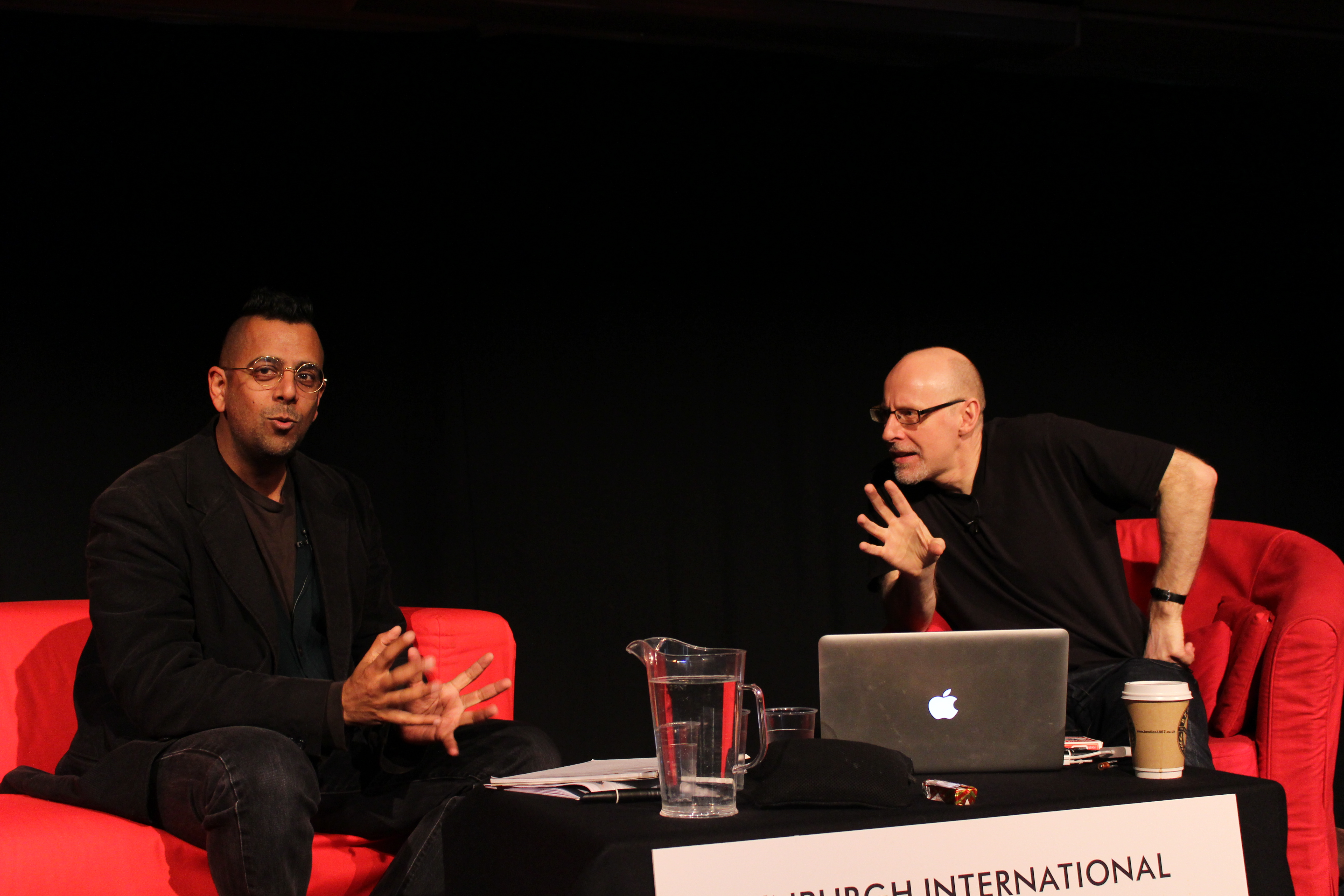 Simon Sing talking about his book: Fermats last theorem with Richard Wiseman'